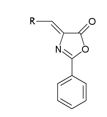 General structure of azlactones